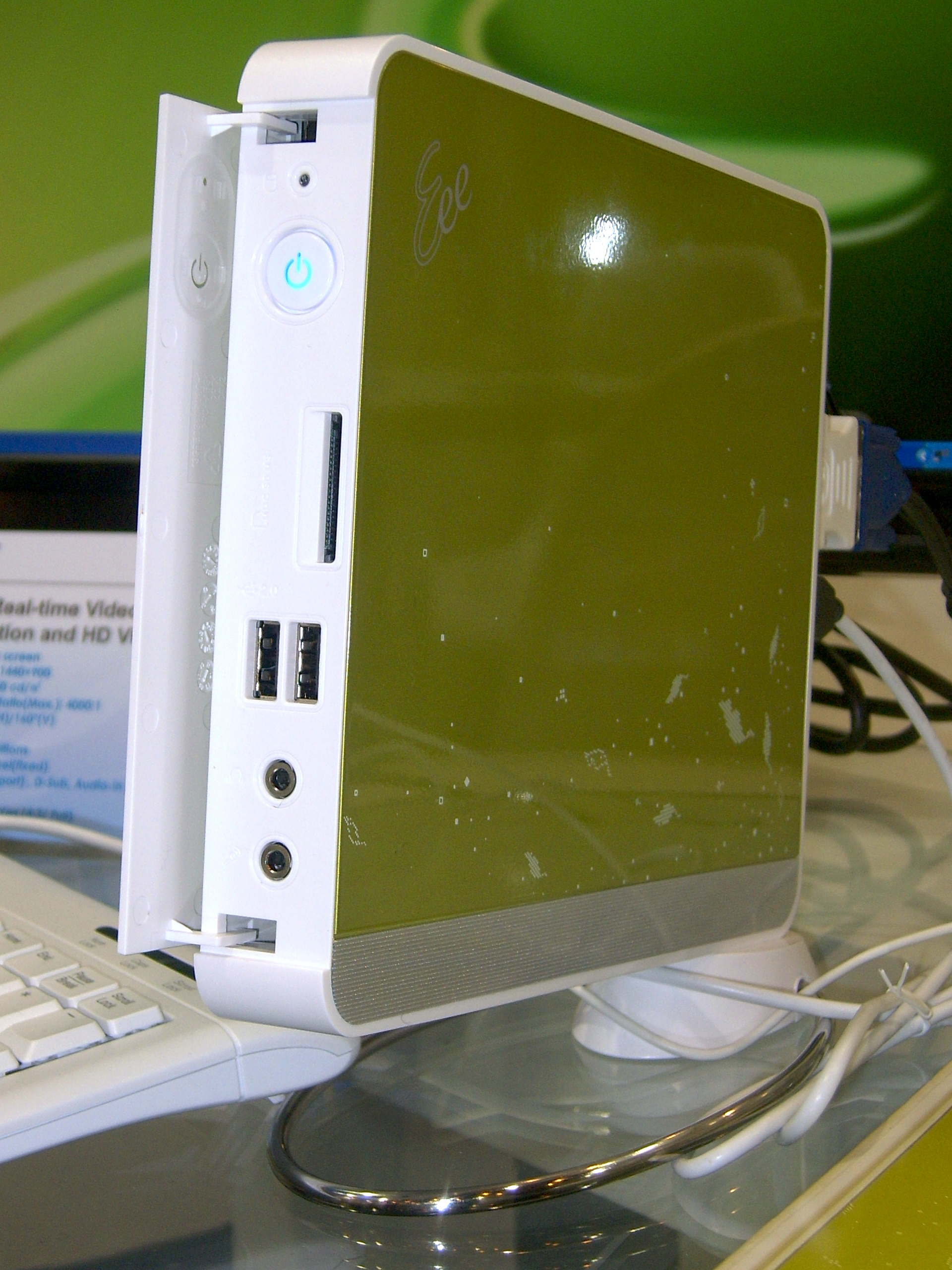 2008 Computex: ASUS Eee Box with customized skin (white body).